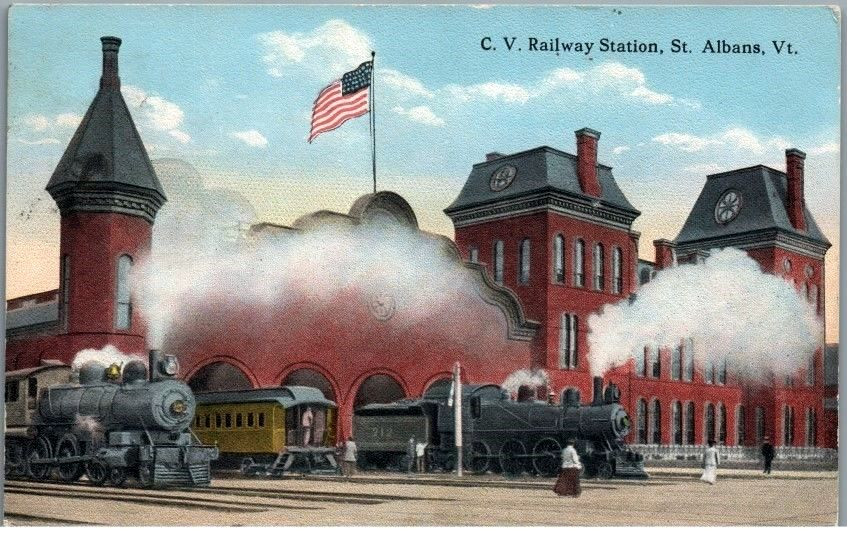 Early divided back postcard of St. Albans station trainshed (left) and the Central Vermont Railway office building, postmarked 1920